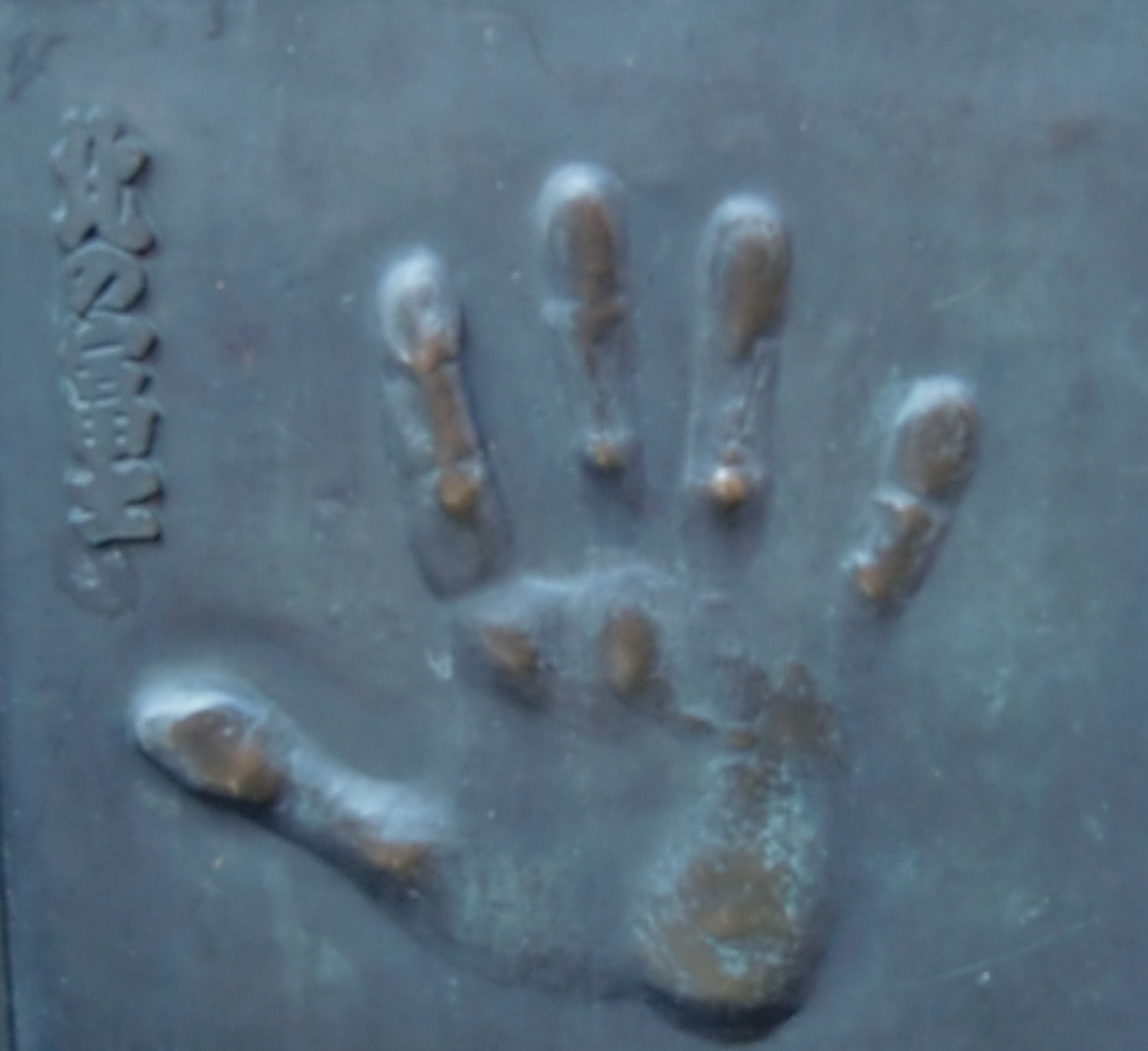 handprint of wrestler on a public monument in Ryogoku Japan